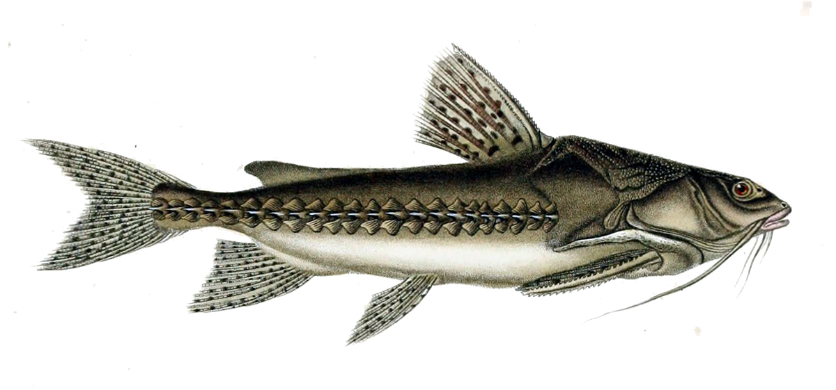 « Doras maculatus » = Pterodoras granulosus (Granulated catfish)